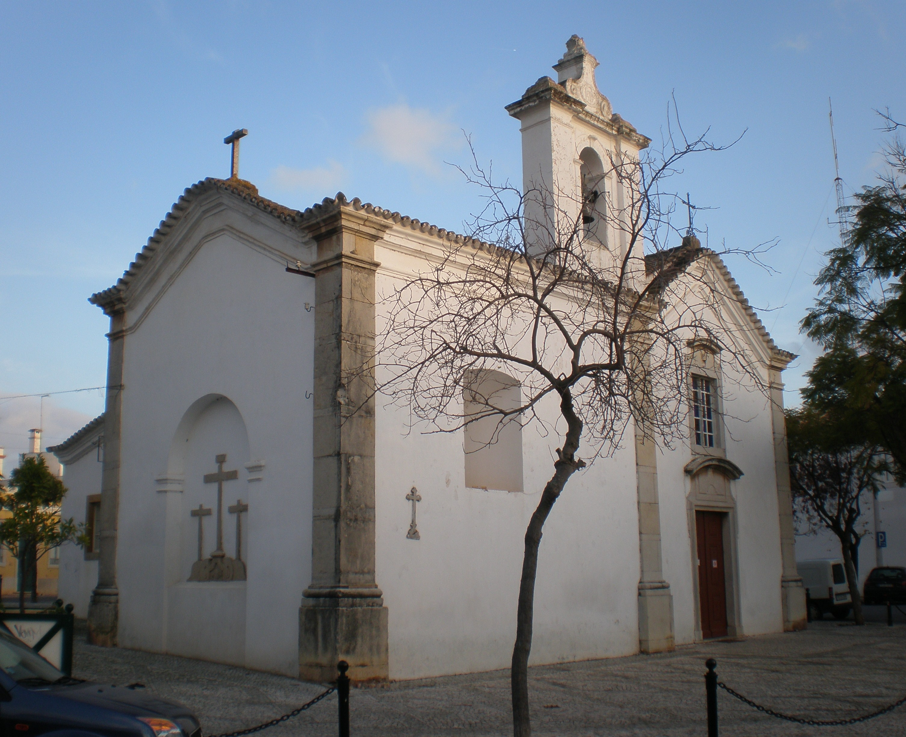 Saint Sebastian's Church, Faro, Portugal